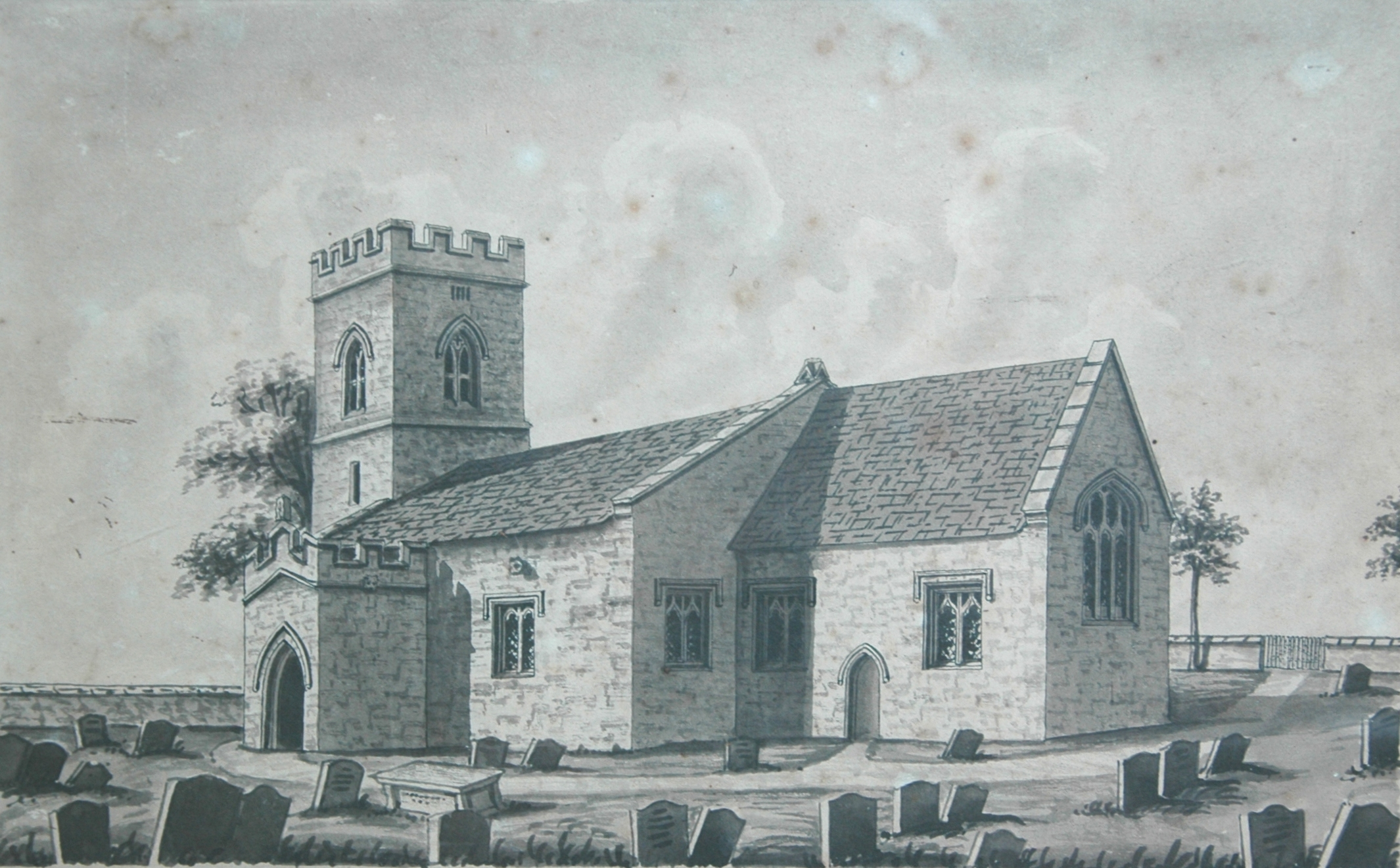 Photograph of drawing of the Church of England parish church of St Edward the Confessor, Westcot Barton (or Westcott Barton), Oxfordshire in 1852, a few years before its restoration and alteration.